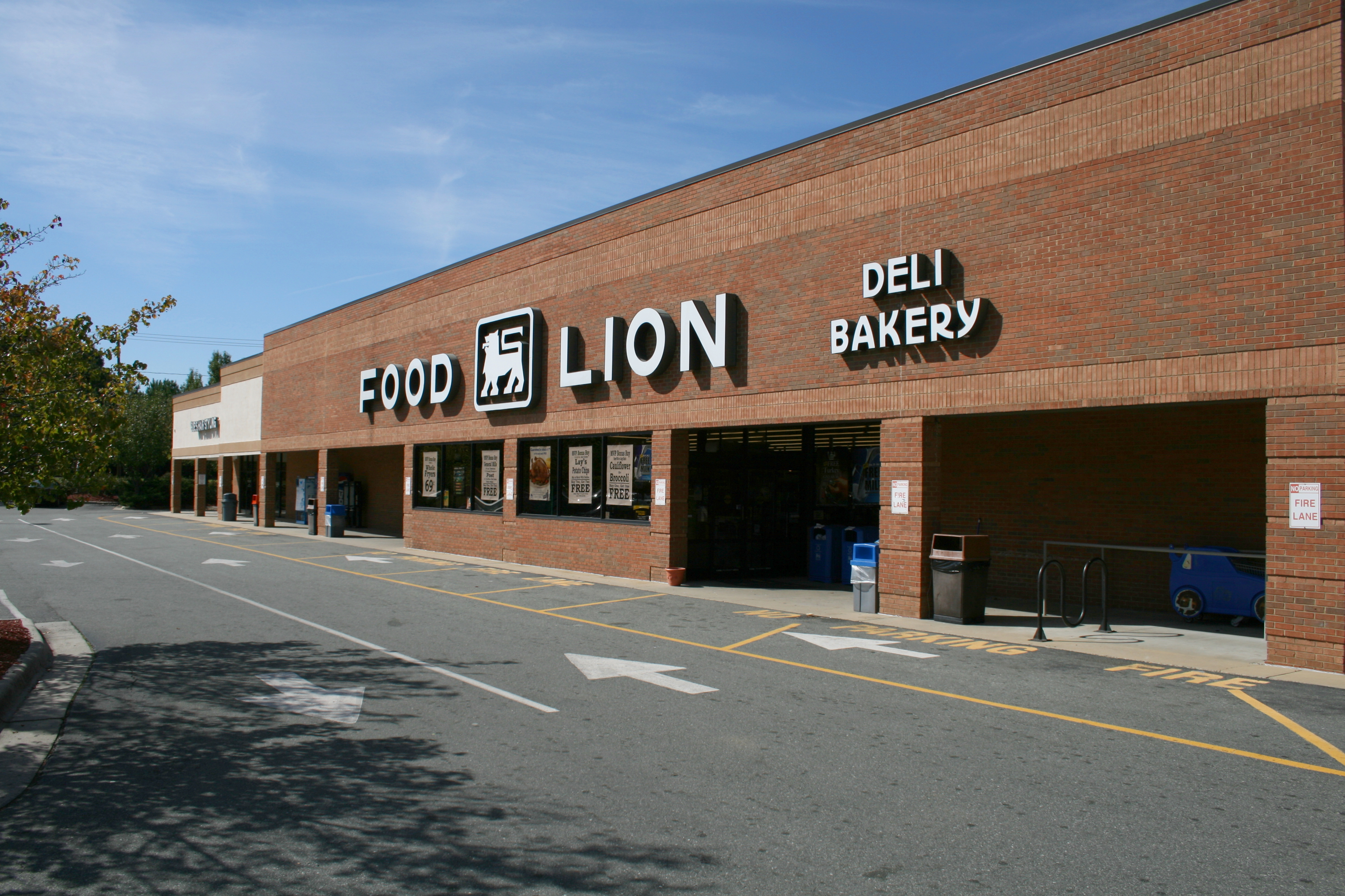 Food Lion grocery supermarket, the anchor store of the University Center plaza in Durham, North Carolina.